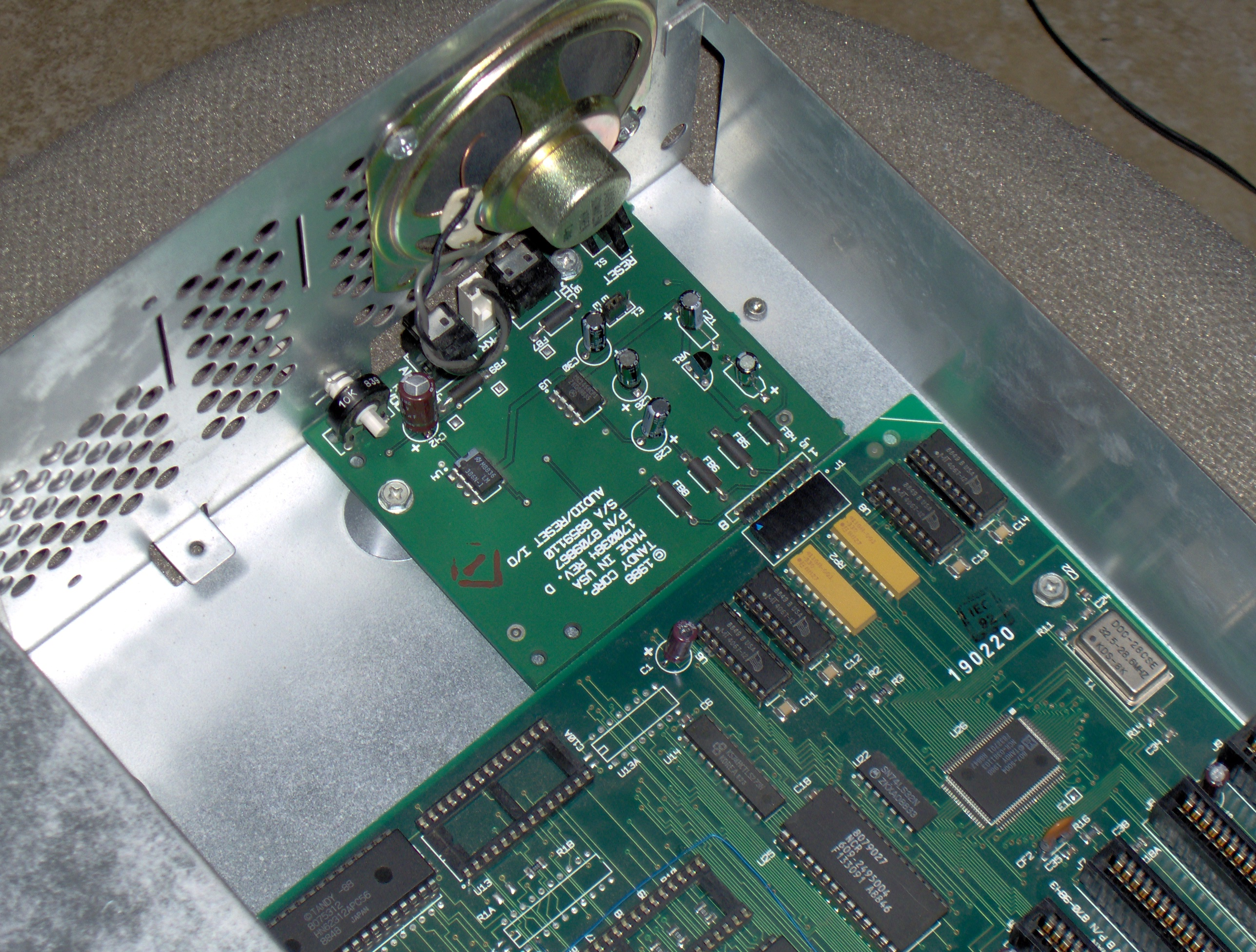 A shot of the sound/reset satellite board in the Tandy 1000 SL. Simplicity indeed.